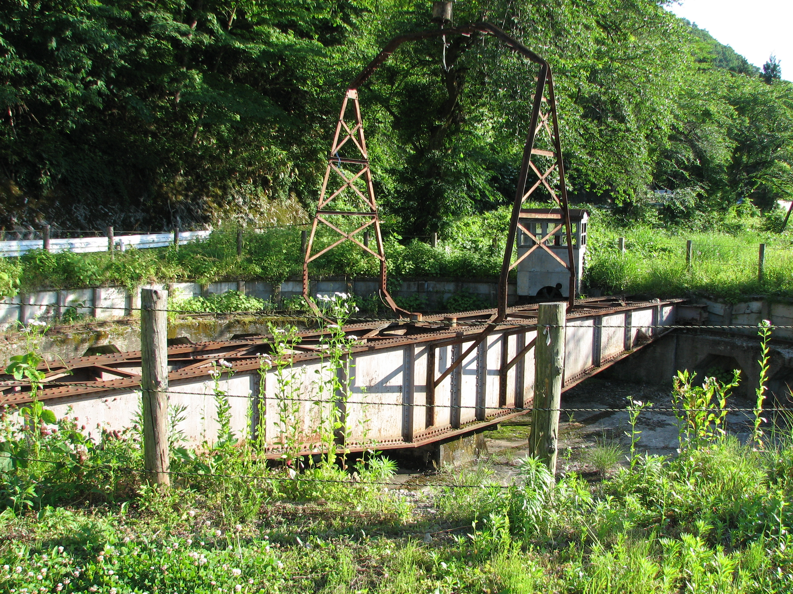 An old turntable at JR East Yamadera Station.